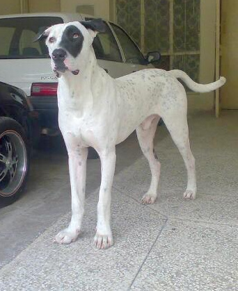 11 months old Male BULLY KUTTA with a Balck eye patch